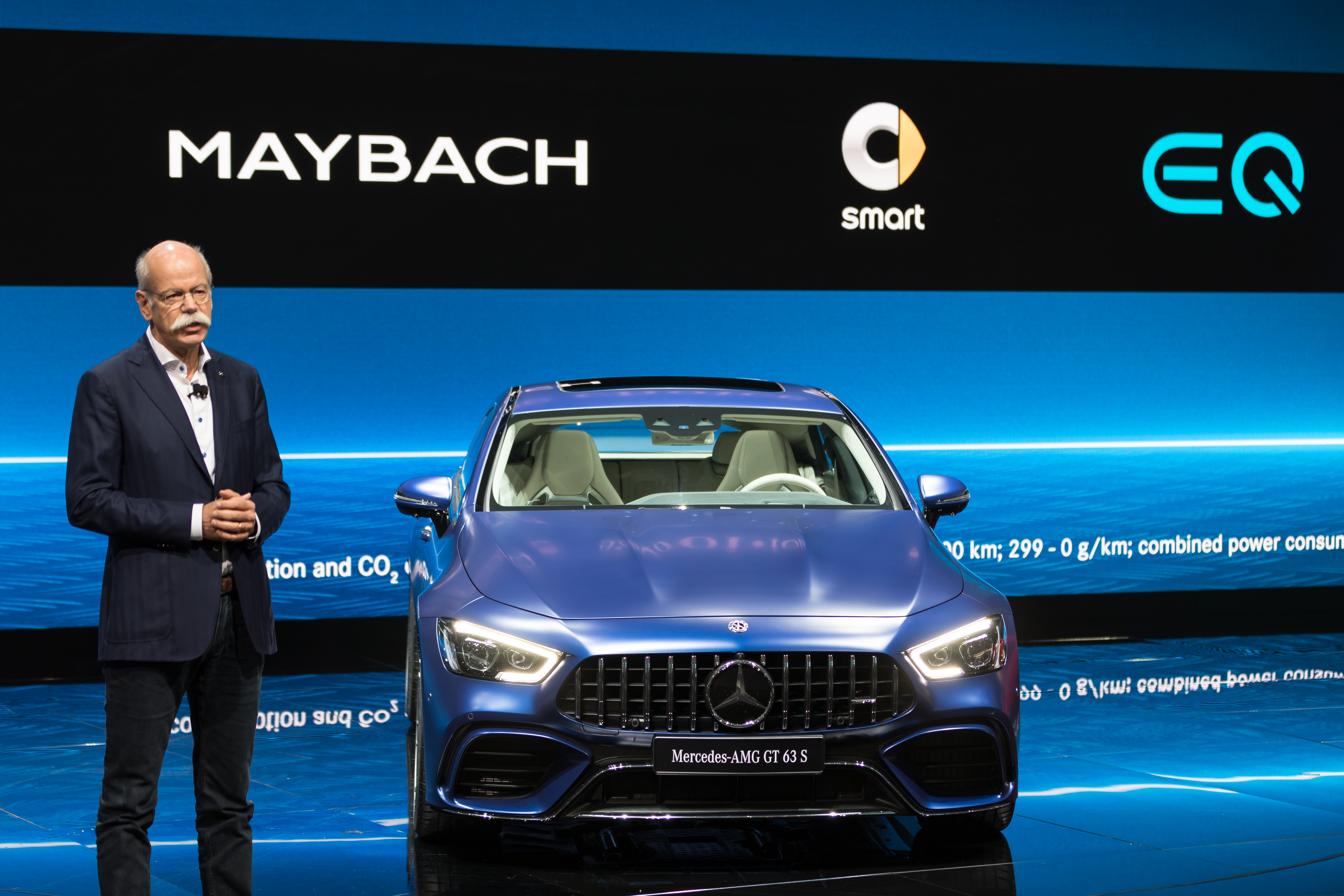 Geneva International Motor Show 2018